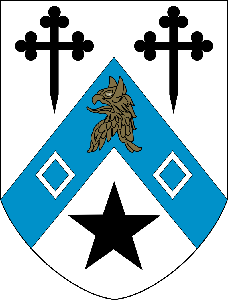 Description at en.wiki: made by me in Inkscape. Additional description : Shield of Newnham College, Cambridge.